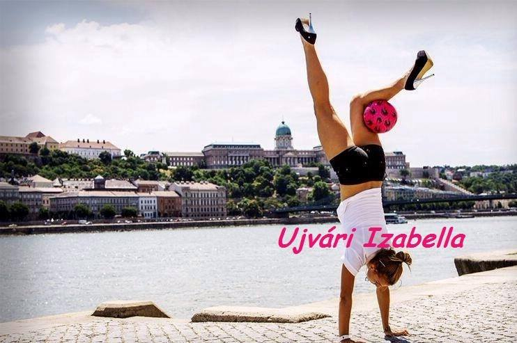 Woman soccer player big talent, Izabella Ujvari presents a nice job ball acrobatic from her knowledge